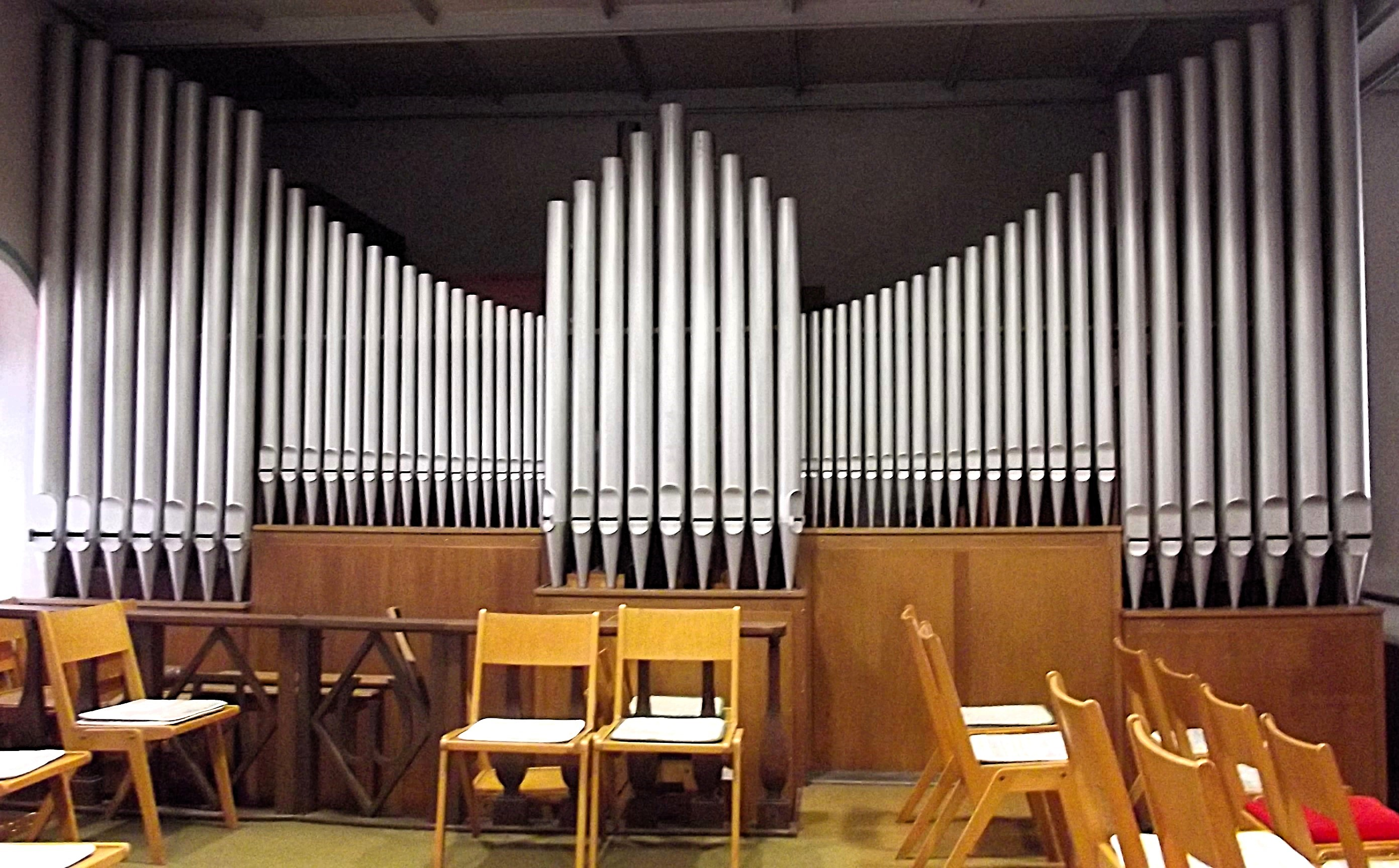 Interior of the roman catholic church in Niederlosheim, Saarland